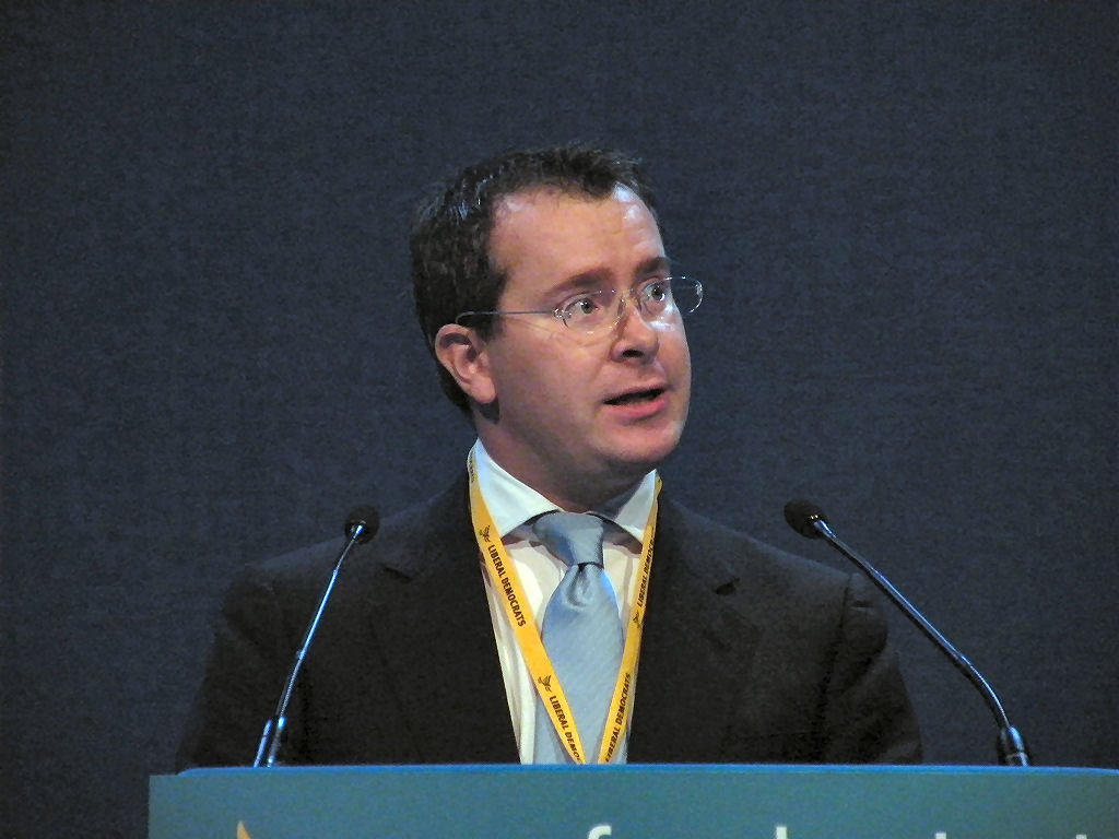 Jeremy Purvis, MSP addressing a Liberal Democrat conference in the Bournemouth International Centre